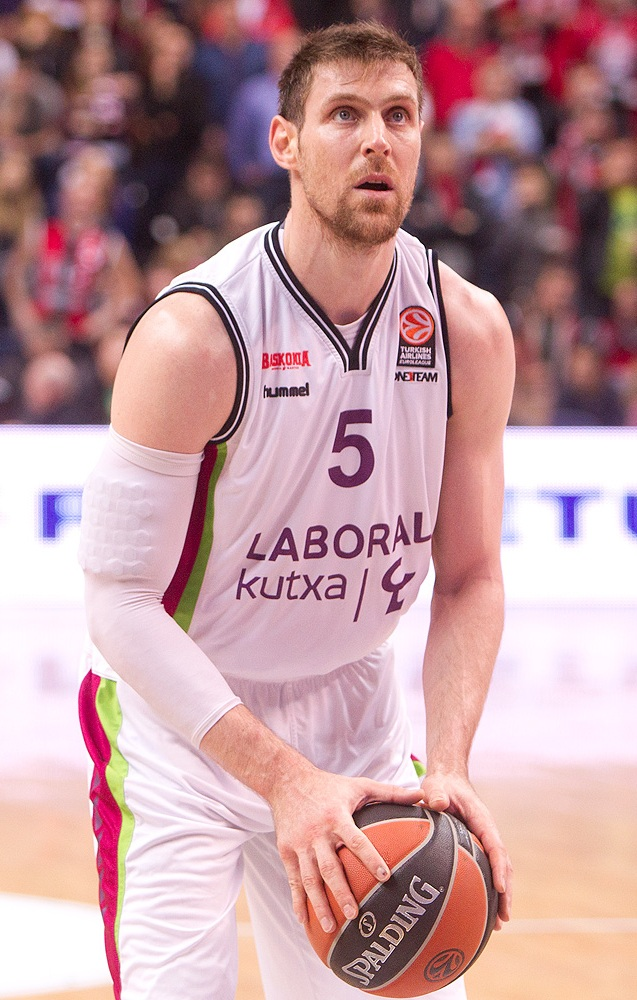 Basketball player Andres Nocioni